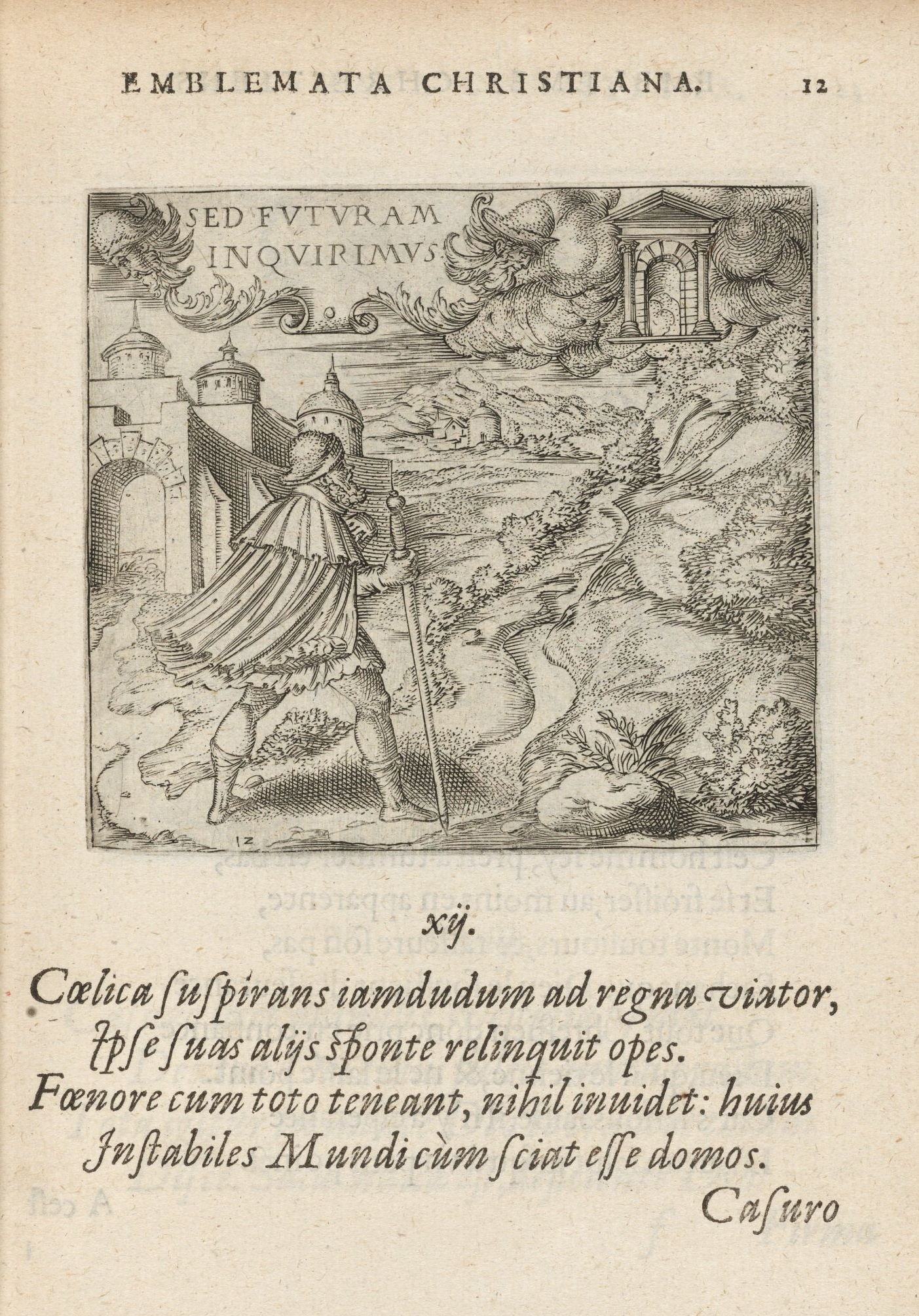 Illustration, “Sed futuram inquirimus” [But we seek one yet to come], page 12 from Emblematum christianorum centuria, 1584, by Georgette de Montenay (1540-1581). Typ 565.84.579, Houghton Library, Harvard University